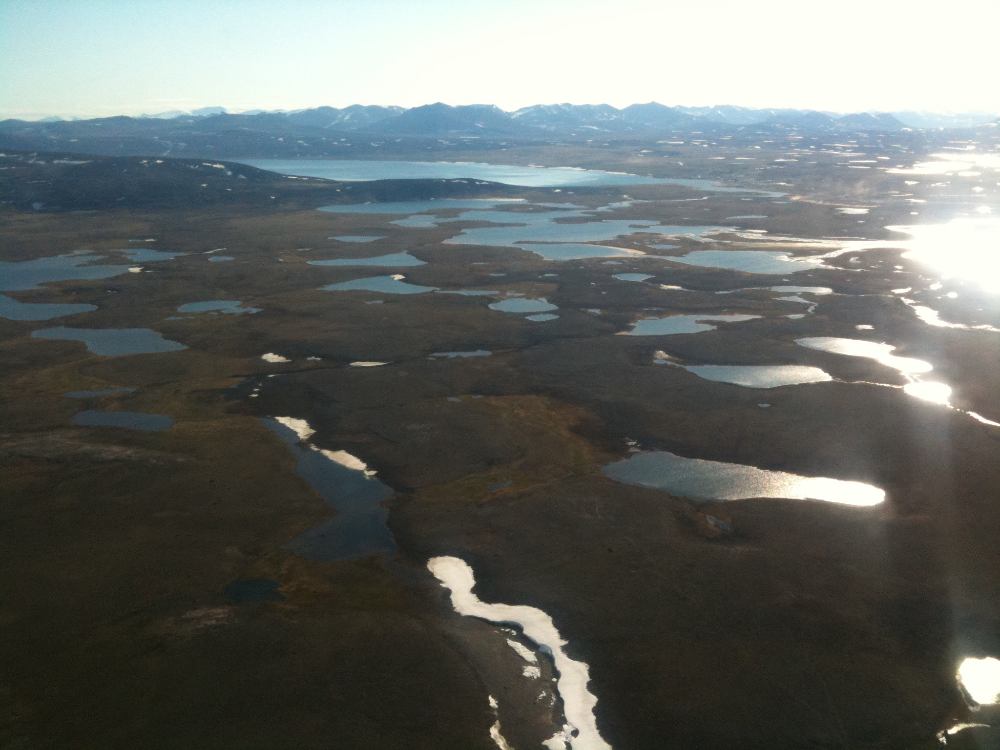 Flying over Baffin Island.